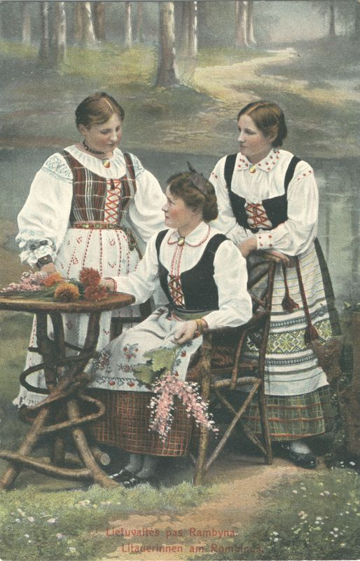 "Lithuanian Women at Rambynas" - a postcard with members of the Birutė Society in national costume